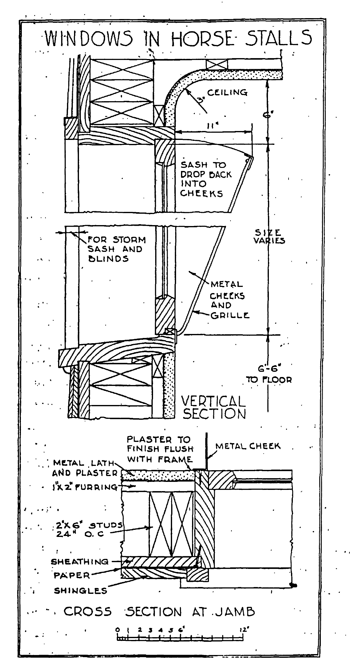 Detail of "Burnett" Windows for Horse Stalls at Castle Hill, Ipswich, Massachusetts.